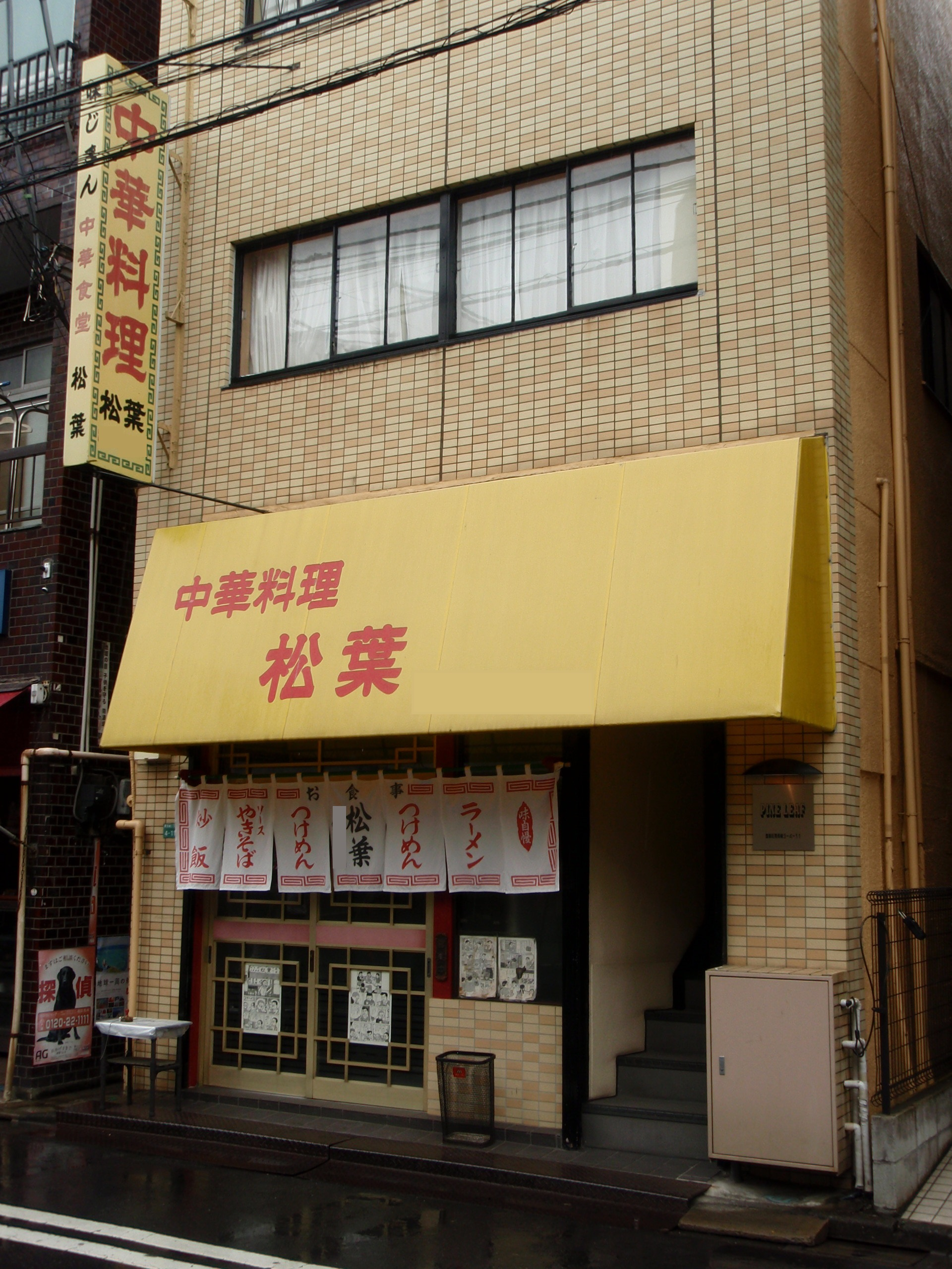 Chinese restaurant Matsuba, Minami-Nagasaki, Toshima Ward, Tokyo